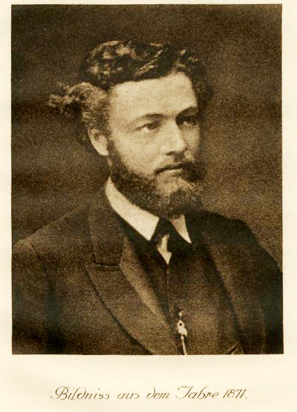 The master builder and contractor Jakob Heilmann (1843-1927) Source: Heilmann family archives